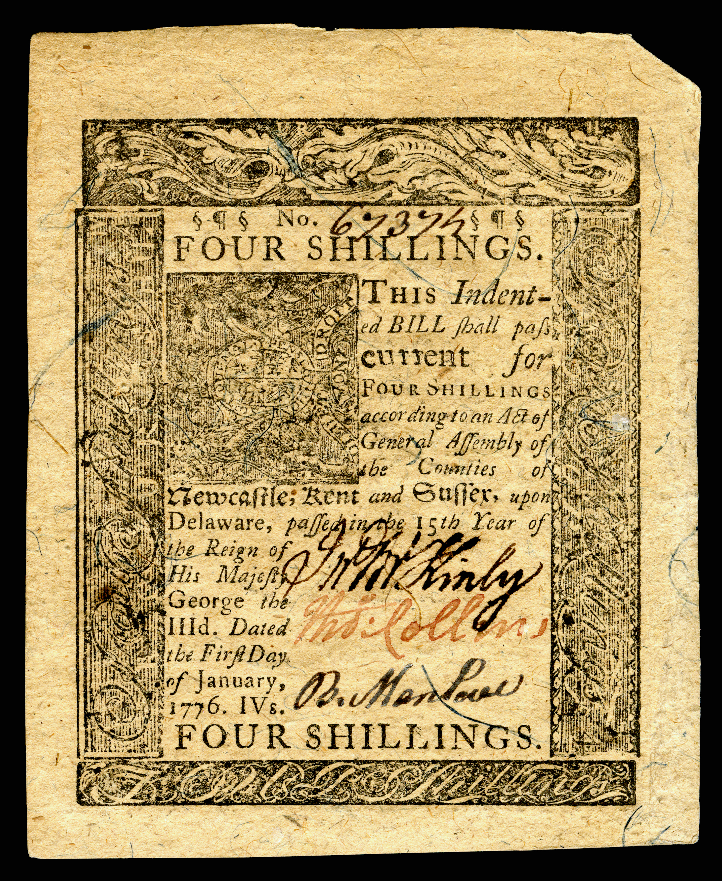 4s Colonial currency from Delaware Colony. Signed by John McKinly, Thomas Collins, and Boaz Manlove. Printed by James Adams. (Friedberg Colonial ref# DE-76).